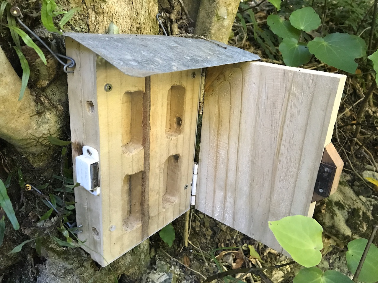 Wētā motel (open) in Brook Waimārama Sanctuary, Nelson, New Zealand